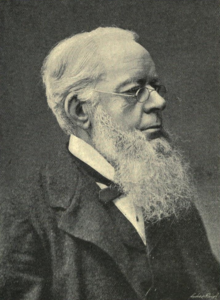 Portrait of Richard Assheton Cross, 1st Viscount Cross